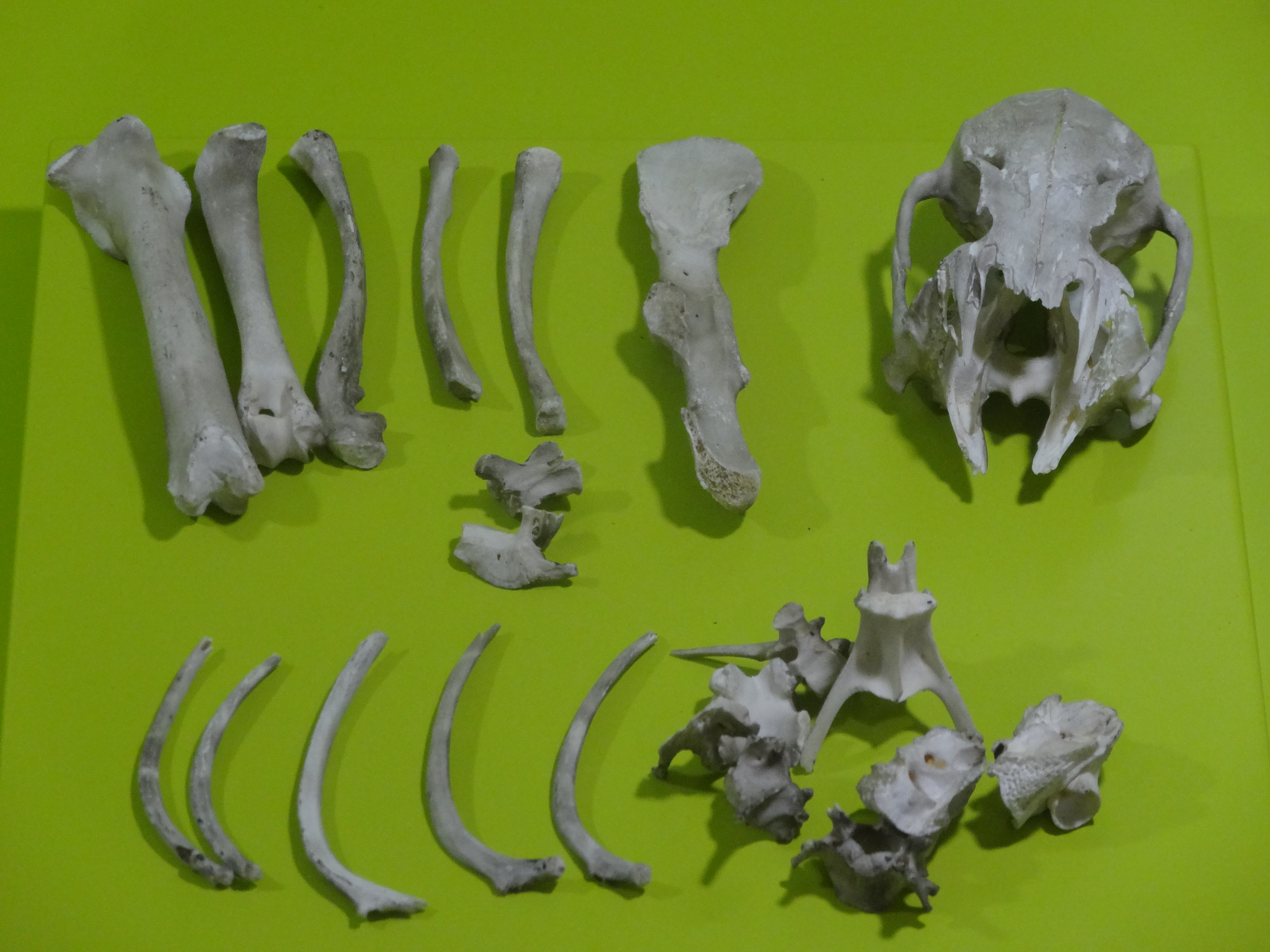 Archaeological site of the Gavà neolithic mines (Parc Arqueològic Mines de Gavà). Rabbit bones